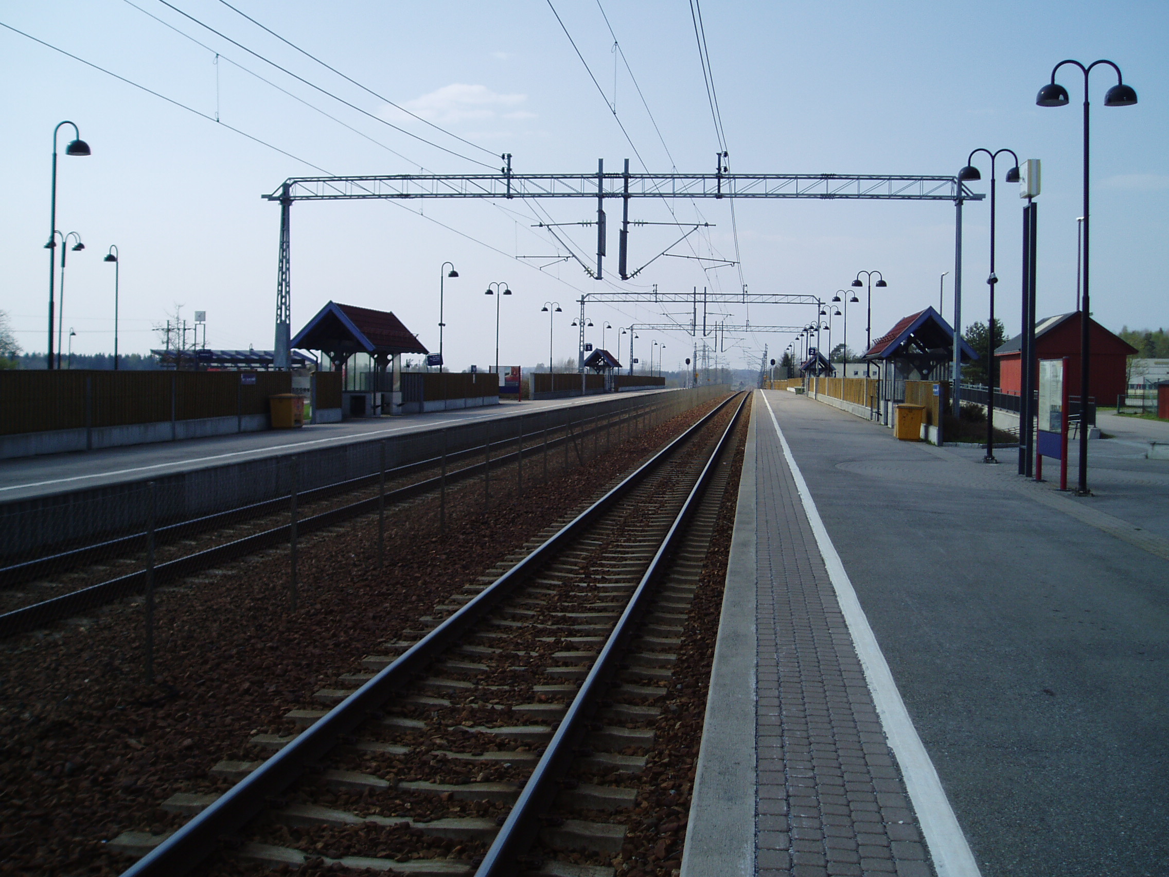 Train station in Rygge, Norway. Photo by JohnM.